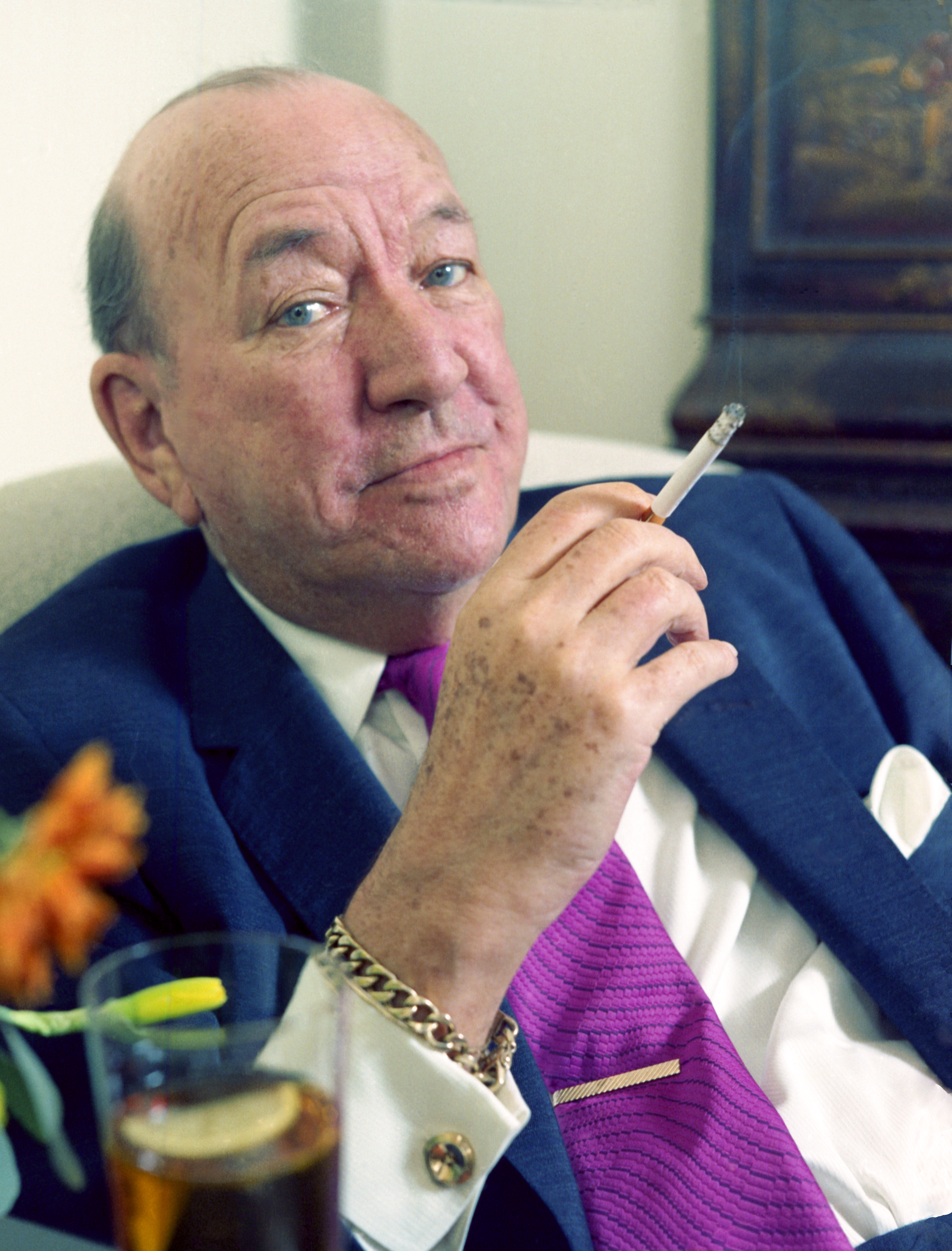 Portrait for Noël Coward's last Christmas Card